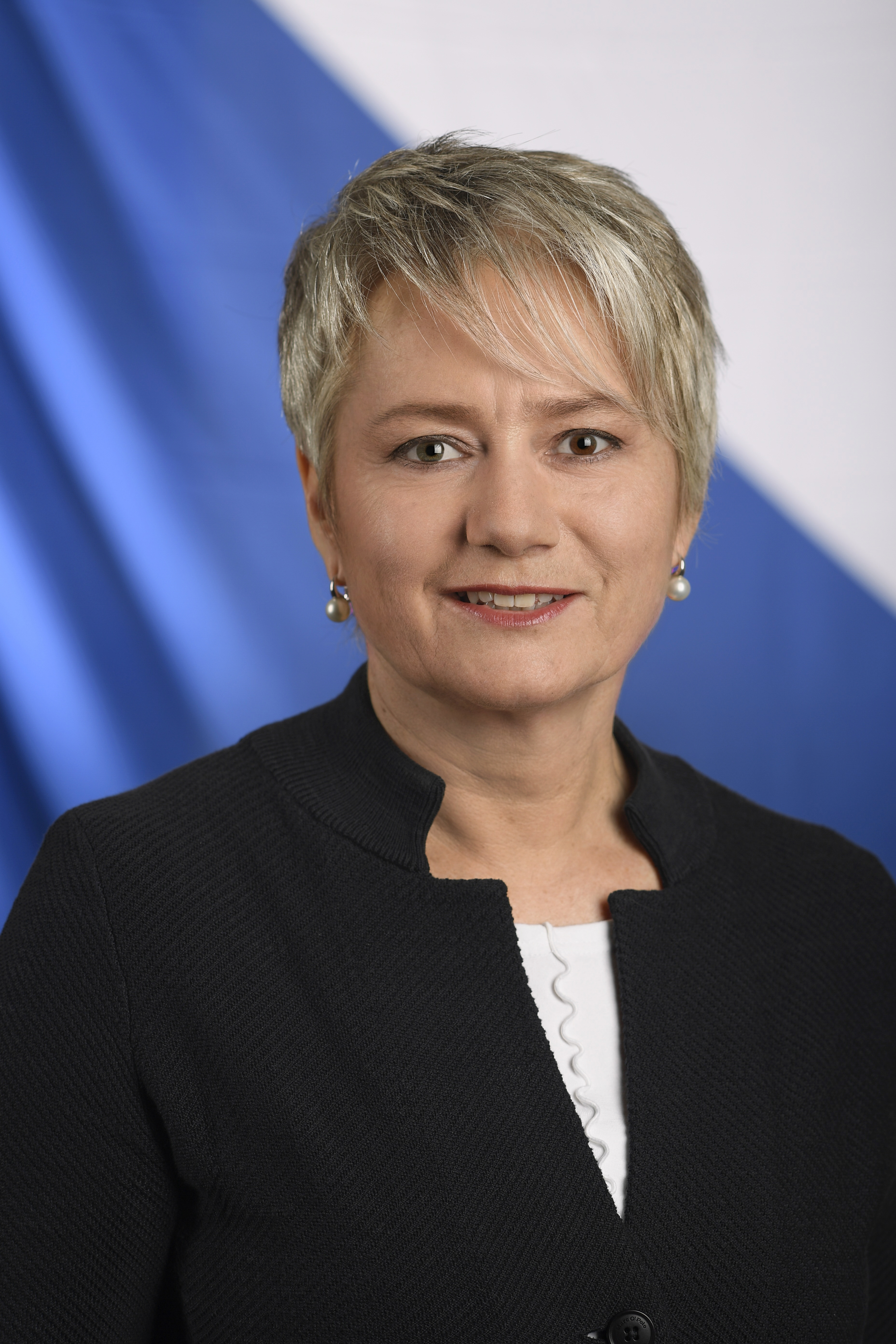 Fehr Jacqueline Government Councillor